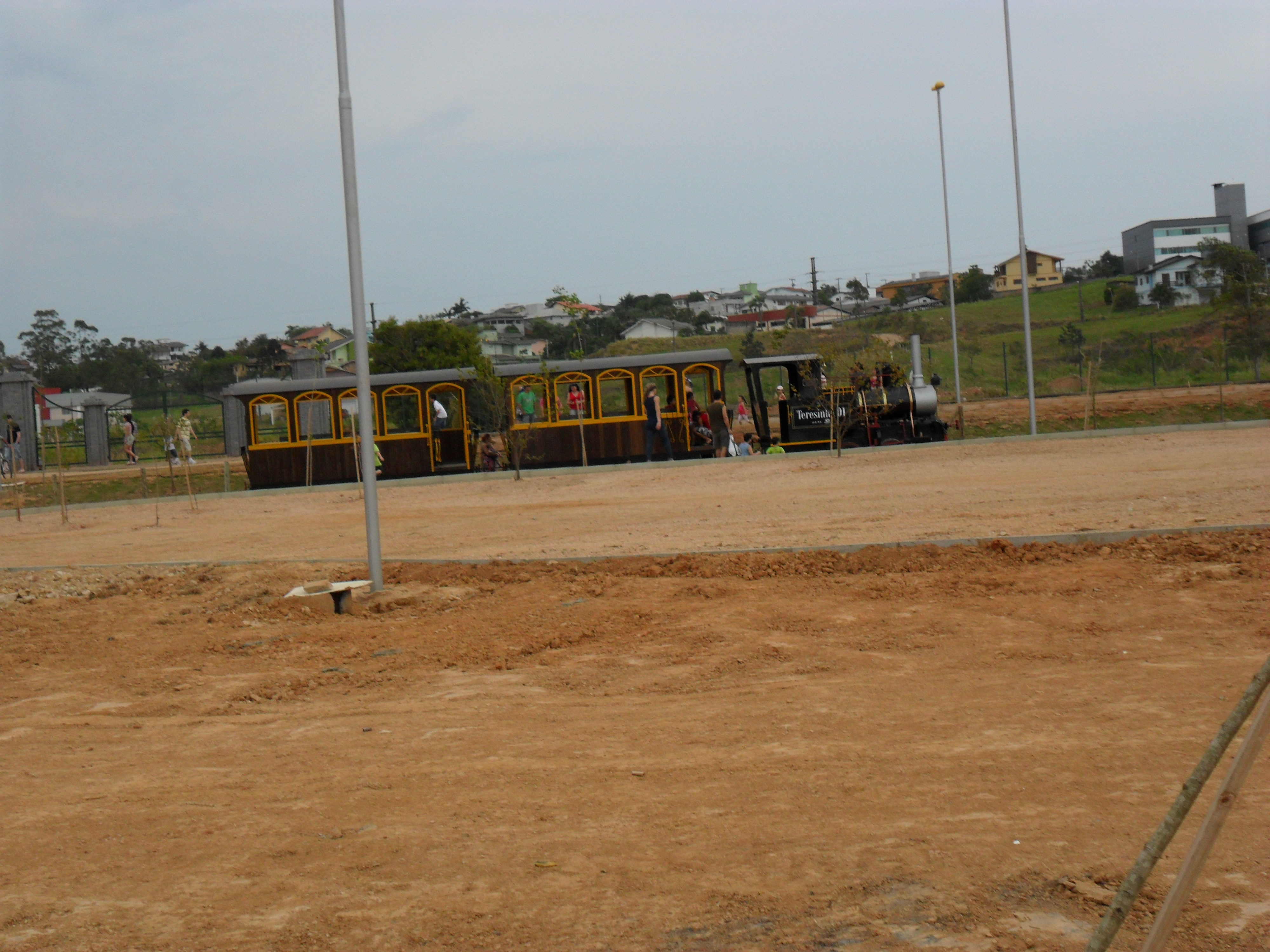 The locomotive Terezinha.